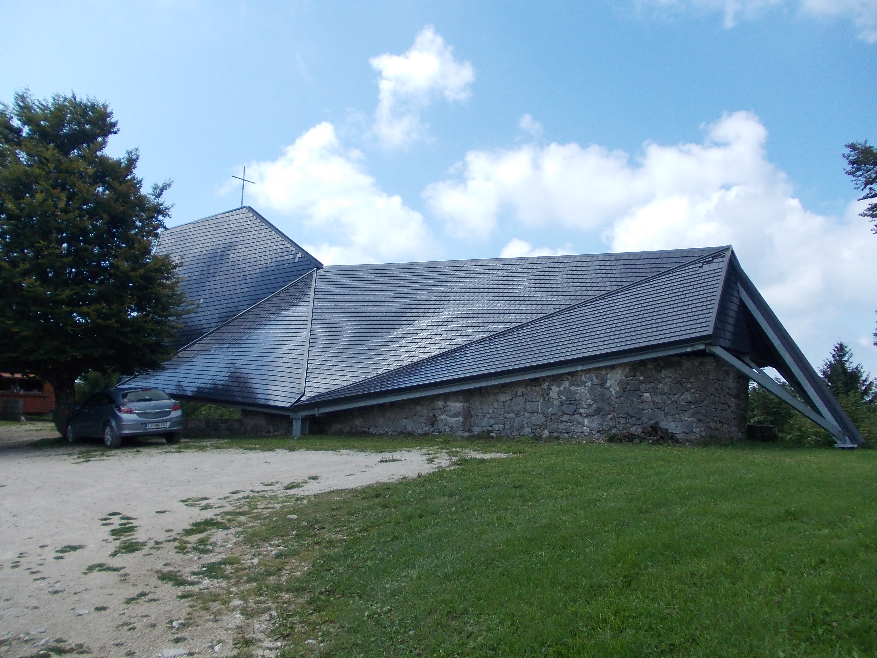 St. Gertrude's Church (Gabrje)